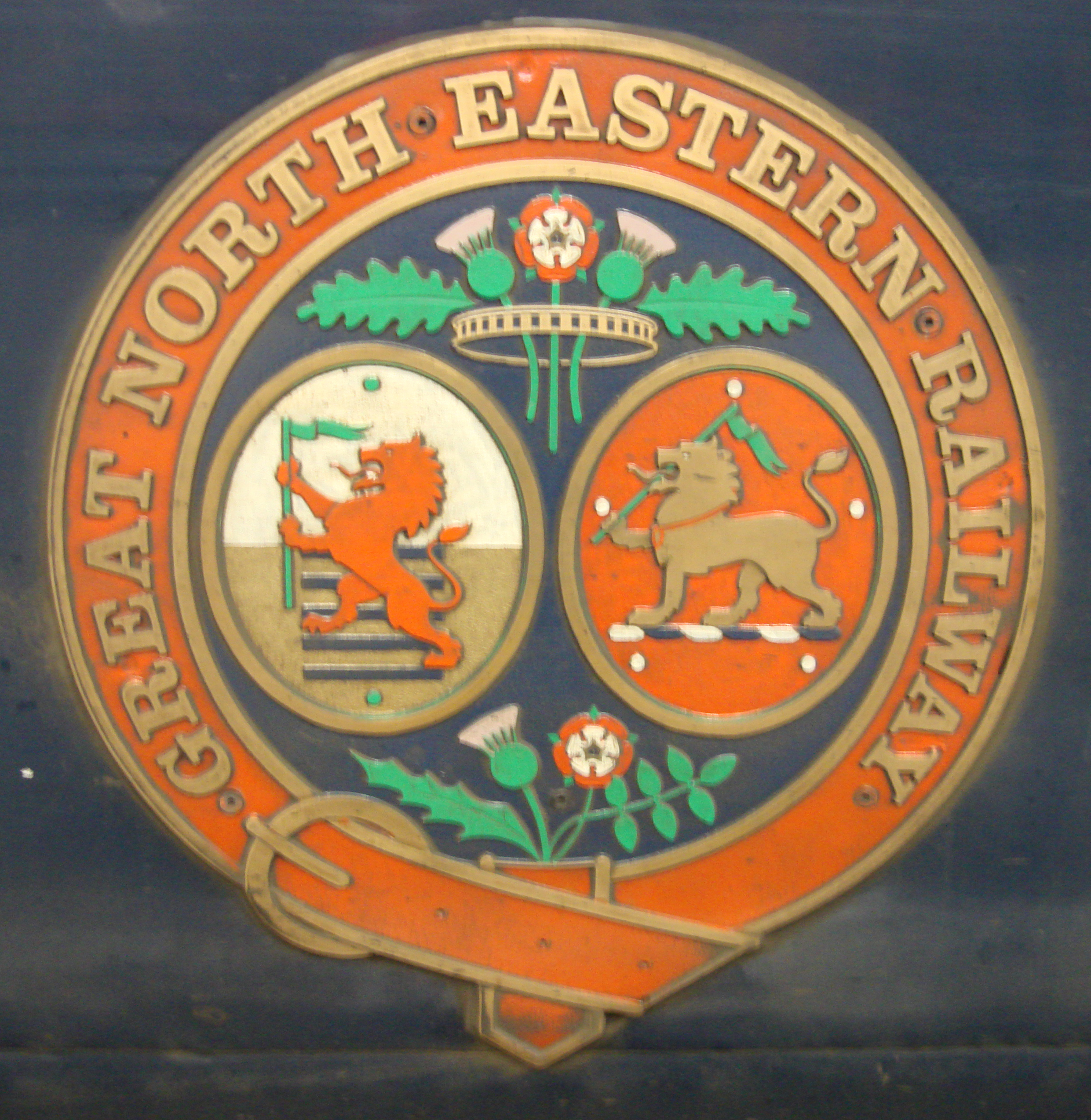 GNER shield, from the side of one of it's coaches